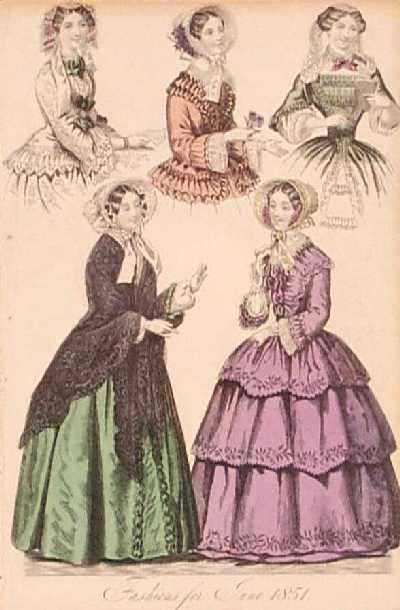 1851 Ladies’ Fashions: June Dresses. Hand colored steel engraving from an 1851 women’s fashion magazine.